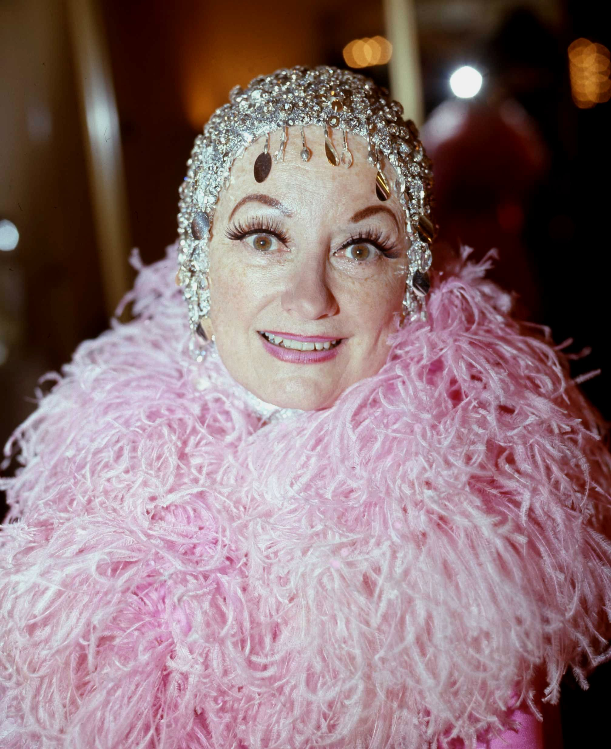 Phyllis Diller